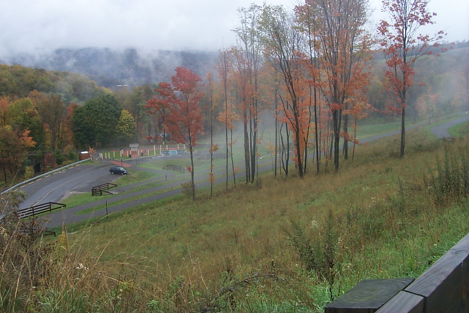 Along the Great Allegheny Passage at the Frostburg, MD trailhead, near Milepost 16. M.L.W.'s Fall 2006 Bicycle Tour. If you use this photo, please provide credit to WVhybrid